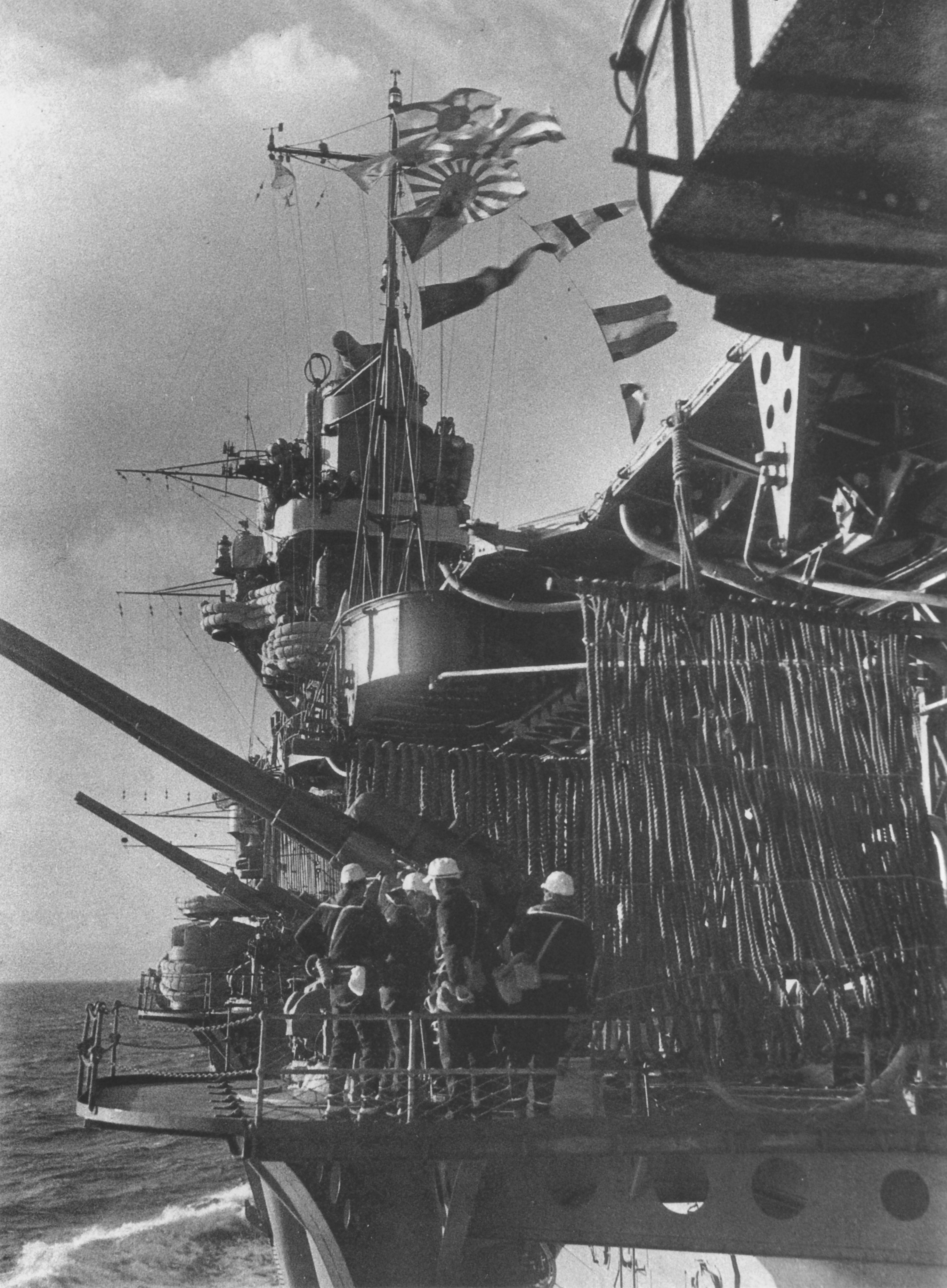 A gun crew mans their weapon aboard the Imperial Japanese Navy aircraft carrier Akagi. This is a twin 120mm, 45-caliber anti-aircraft gun position mounted on the port side of the carrier. Note that the position is mounted too low to enable it to fire across the flight deck. The photo was taken in November or December 1941 as the carrier headed towards Hawaii for the attack on Pearl Harbor.